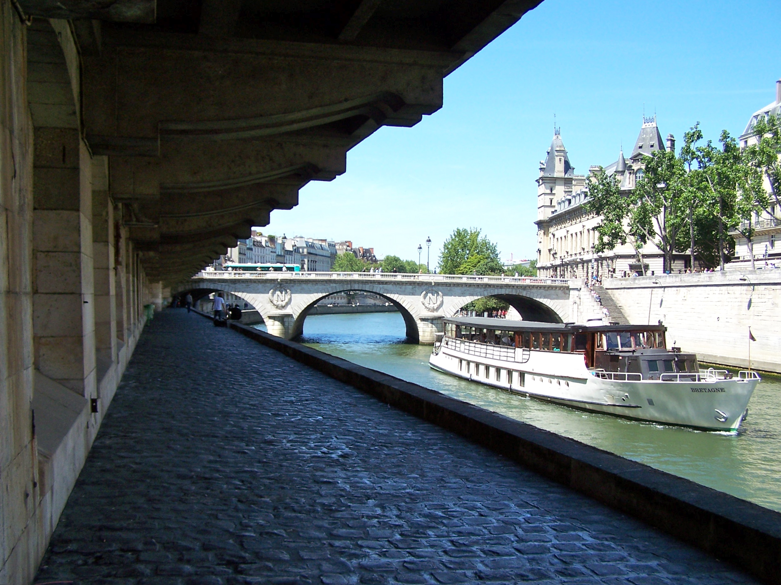 View of the promande René-Capitant along the Seine river in Paris